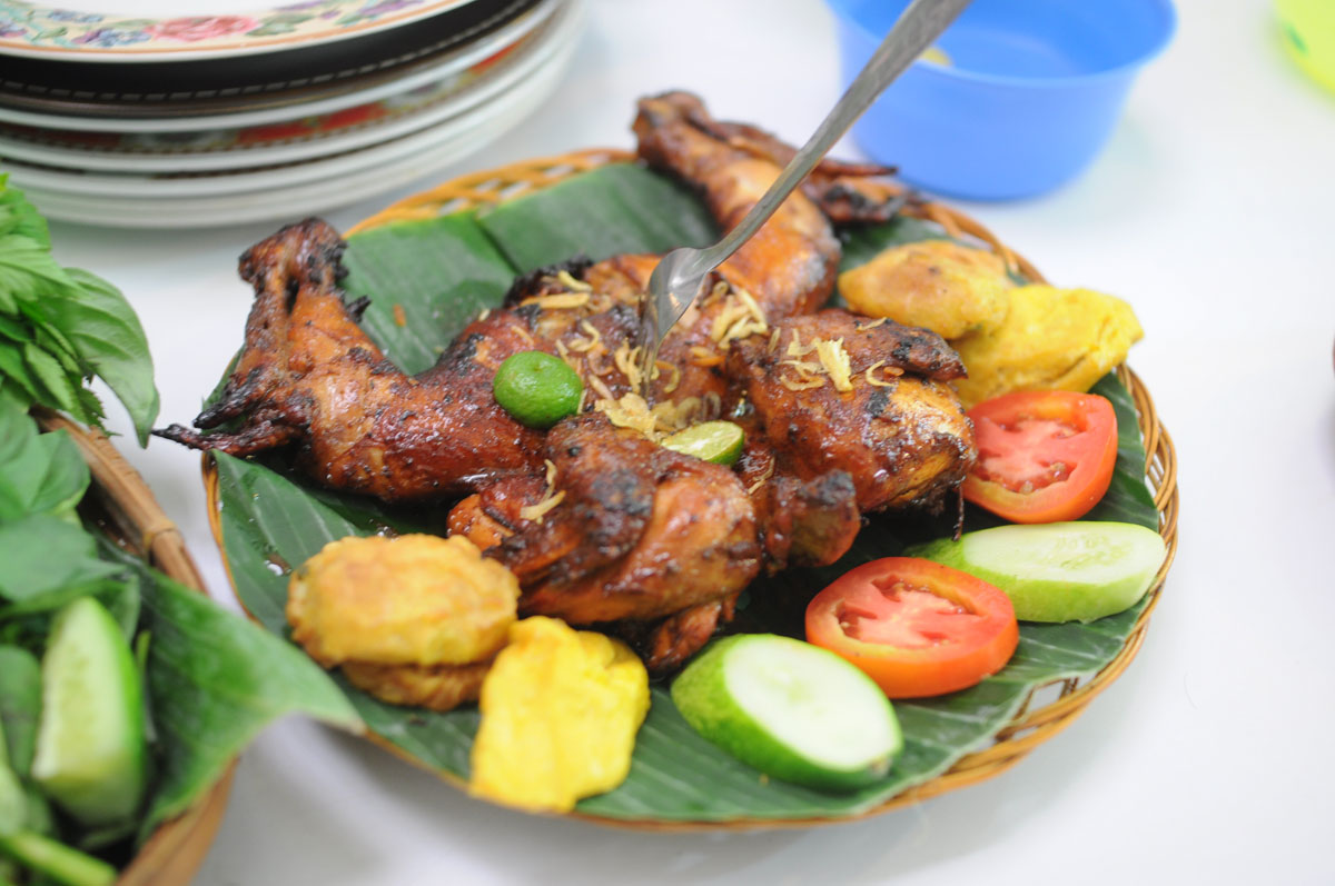 Ayam Panggang (grilled chicken, Sundanese style)